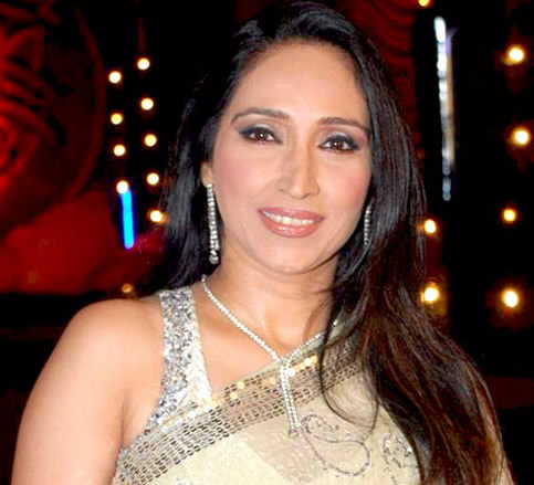 Ketki Dave at Roshni Chopra and other celebs on the sets of Aahat serial